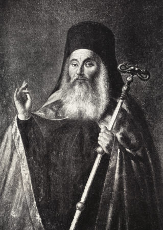 Ecumenical Patriarch Agathagelos